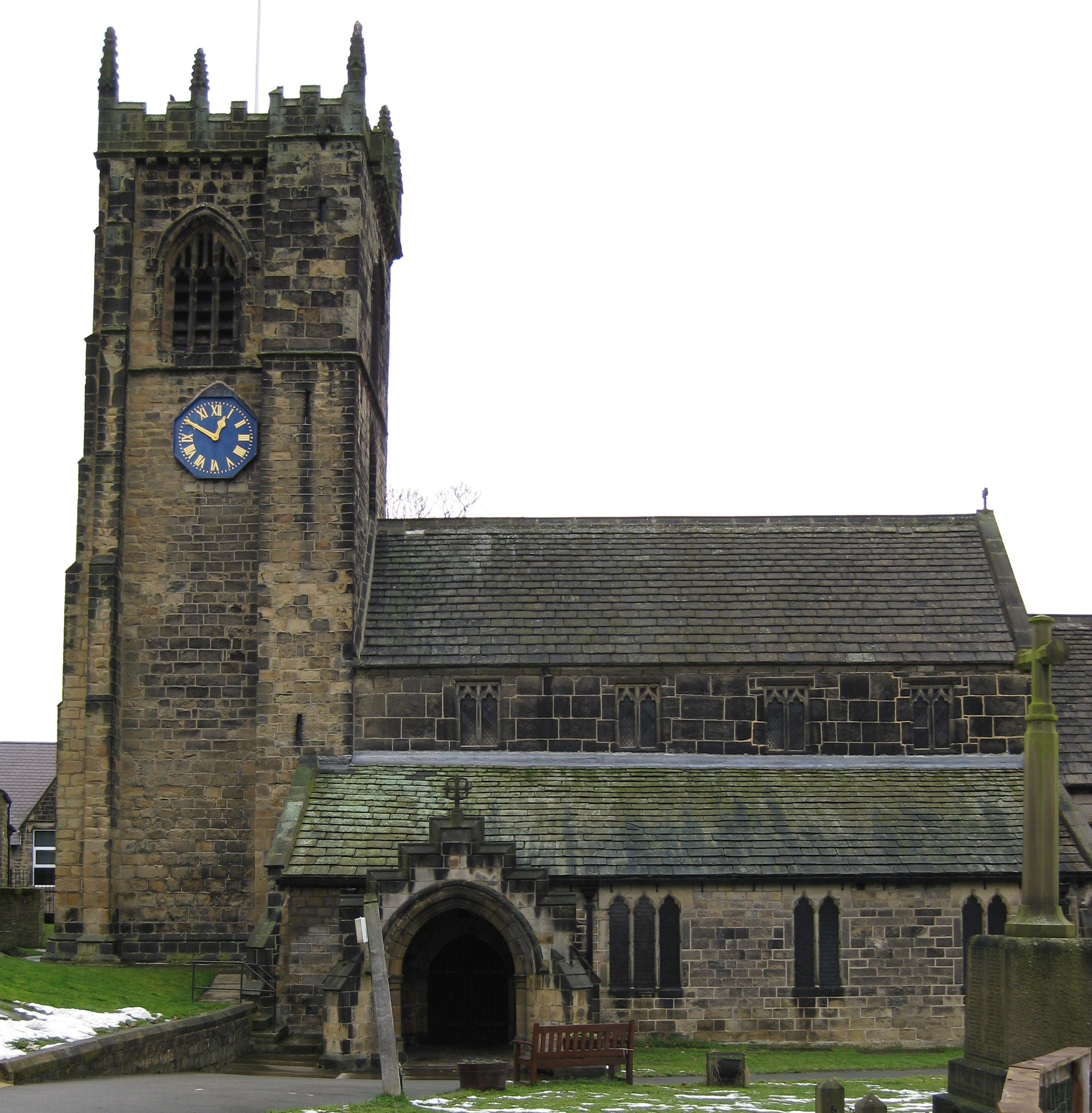 St Wilfred's Parish Church (C of E) Calverley, LS28